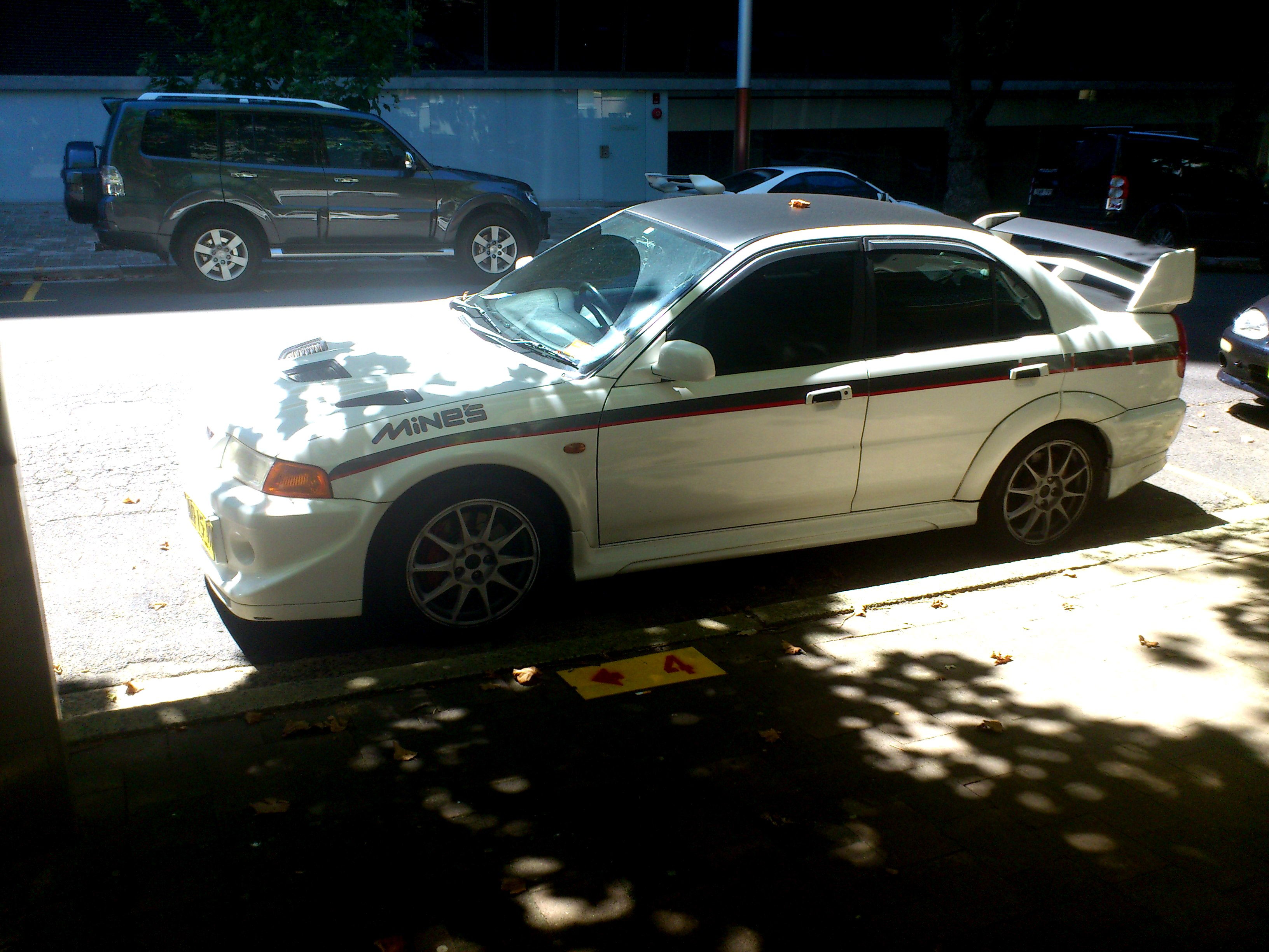 Another Lancer Evo 6 special being modified by the well known Japanese tuner Mines (probably better known for their work on Skyline GT-Rs).